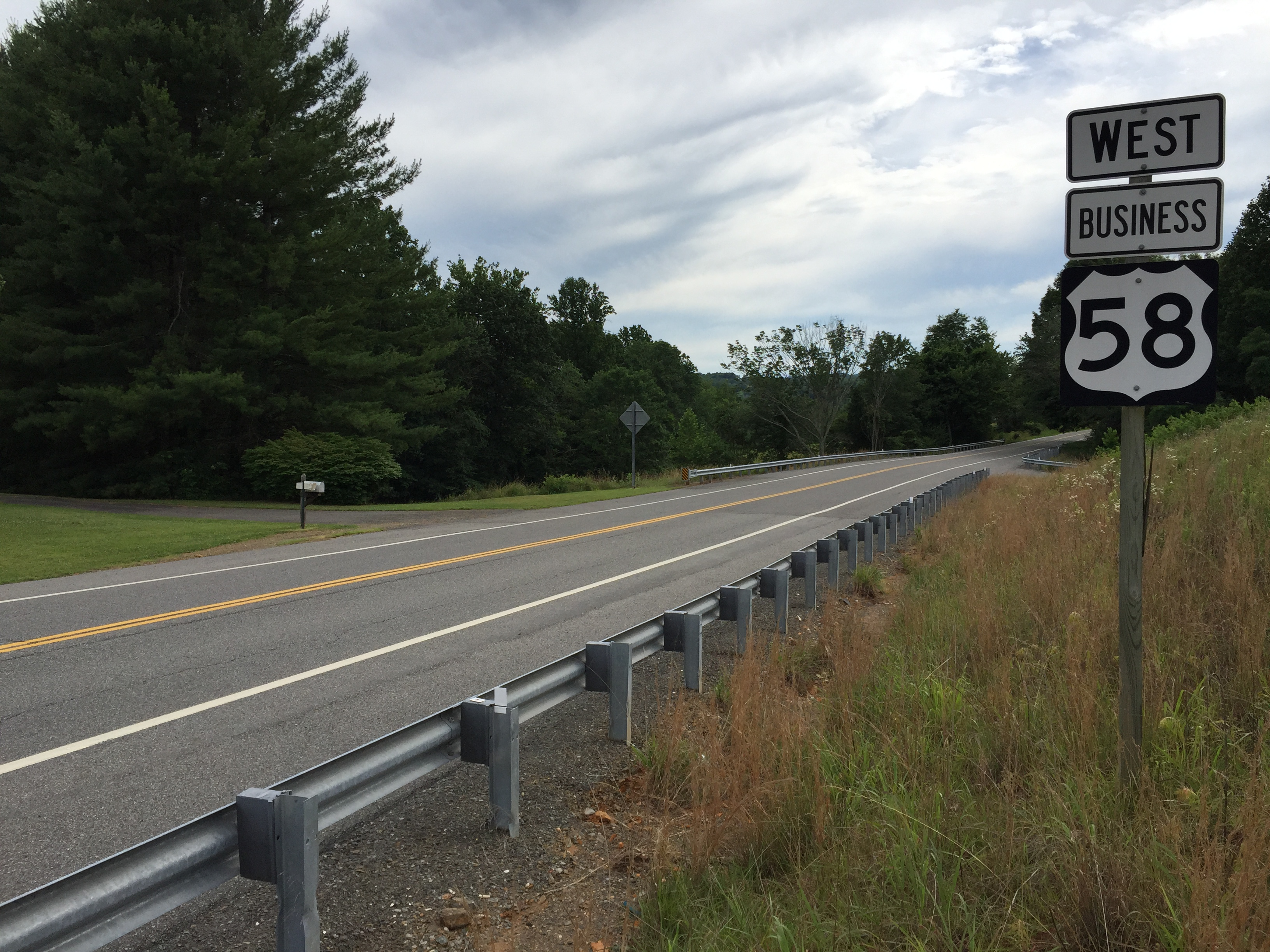 View west along U.S. Route 58 Business (Danville Pike) at Springwillow Drive (Virginia State Secondary Route 669) in Hillsville, Carroll County, Virginia